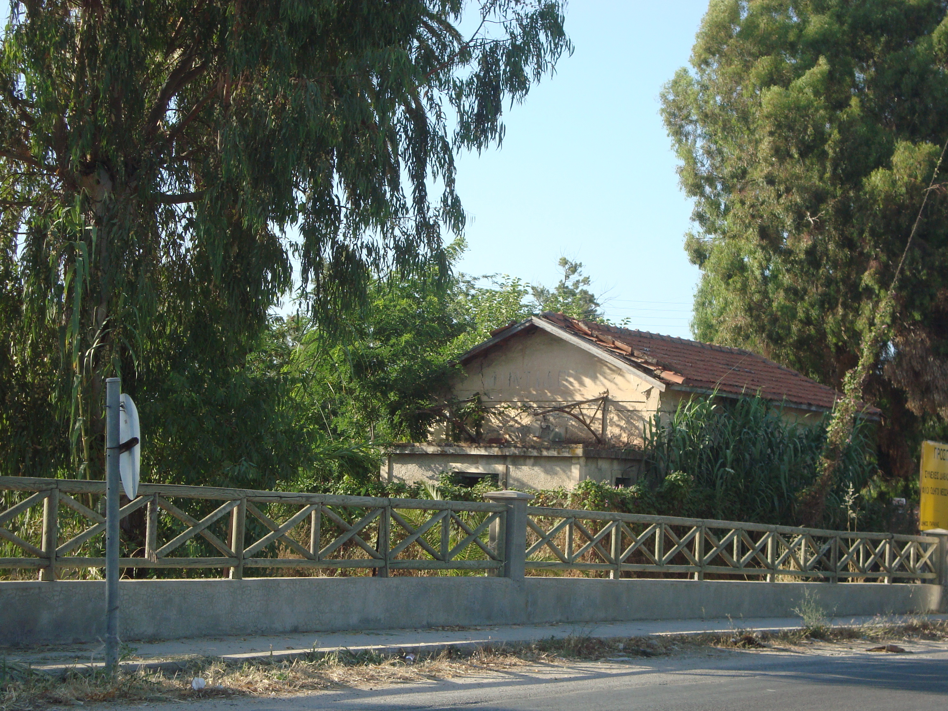 Old Train station of Mindilogli Patras